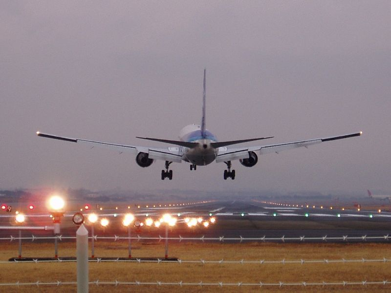 All Nippon Airways Boeing767-381 is landing Osaka Intl. Airport runway 32L.